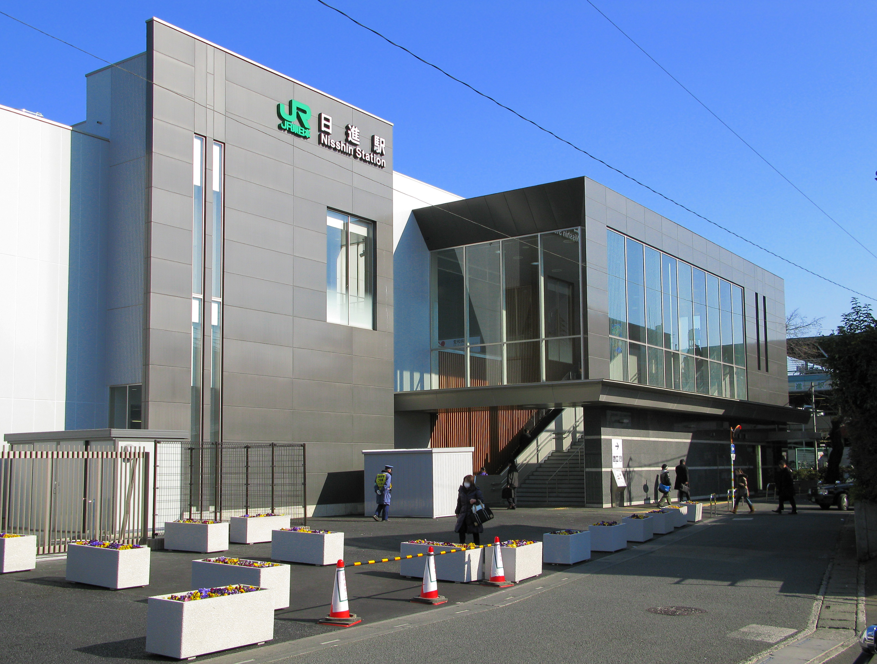 South Entrance of Nisshin Station on the Kawagoe Line in Saitama Prefecture